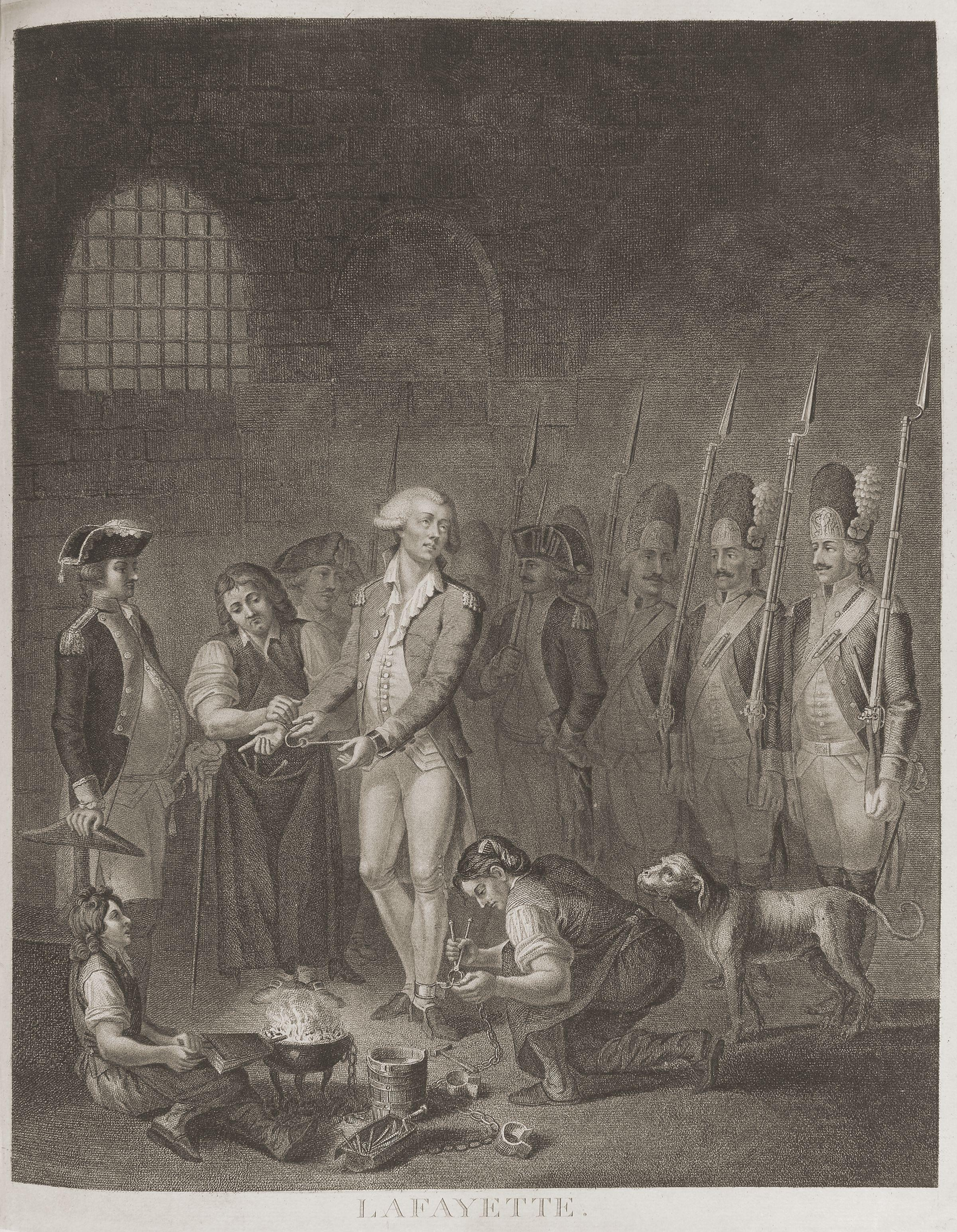 Marie Joseph Paul Yves Roch Gilbert du Motier, Marquis de Lafayette, by unknown artist. All images in this batch are listed as "unknown author" by the NPG, who is diligent in researching authors, and was donated to the NPG before 1939 according to their website.